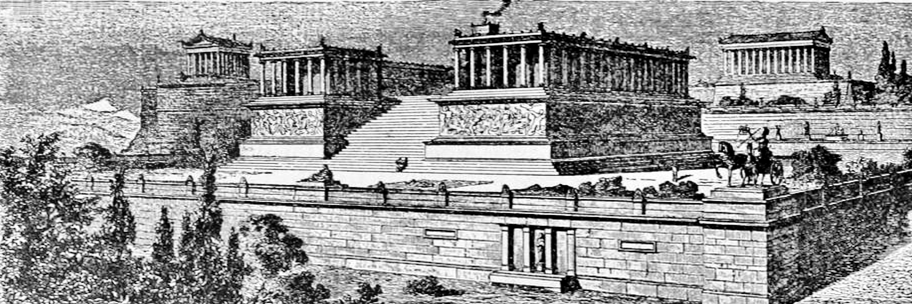 The Temples of Pergamon